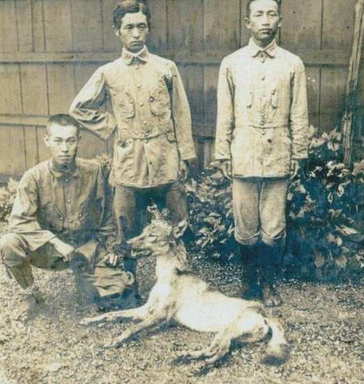 18.75 kg canid shot at the Matsudaira agricultural station in Fukui Prefecture, August 1910. Its identity remains controversial; as the grey wolf had been considered extinct since 1905, it was initially identified as either a feral dog or an escaped captive Korean wolf. Japanese zoologist and wolf expert Yoshinori Imaizumi, former head of animal studies at the National Science Museum, and his colleague Mizuko Yoshiyuki, also of the National Science Museum, examined the photo in the early 2000s, and concluded it was indeed a grey wolf.